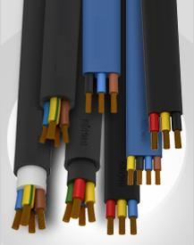 PVC and Rubber Insulated 3 & 4 Core Round as well as Flat cables.